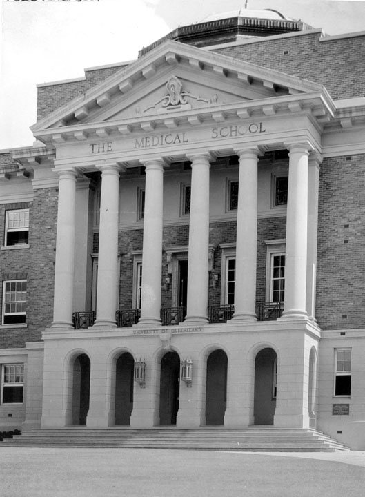 University of Queensland Medical School, Herston, Brisbane. (Alternative name is Mayne Medical School. Located at 288 Herston Road, Herston.)